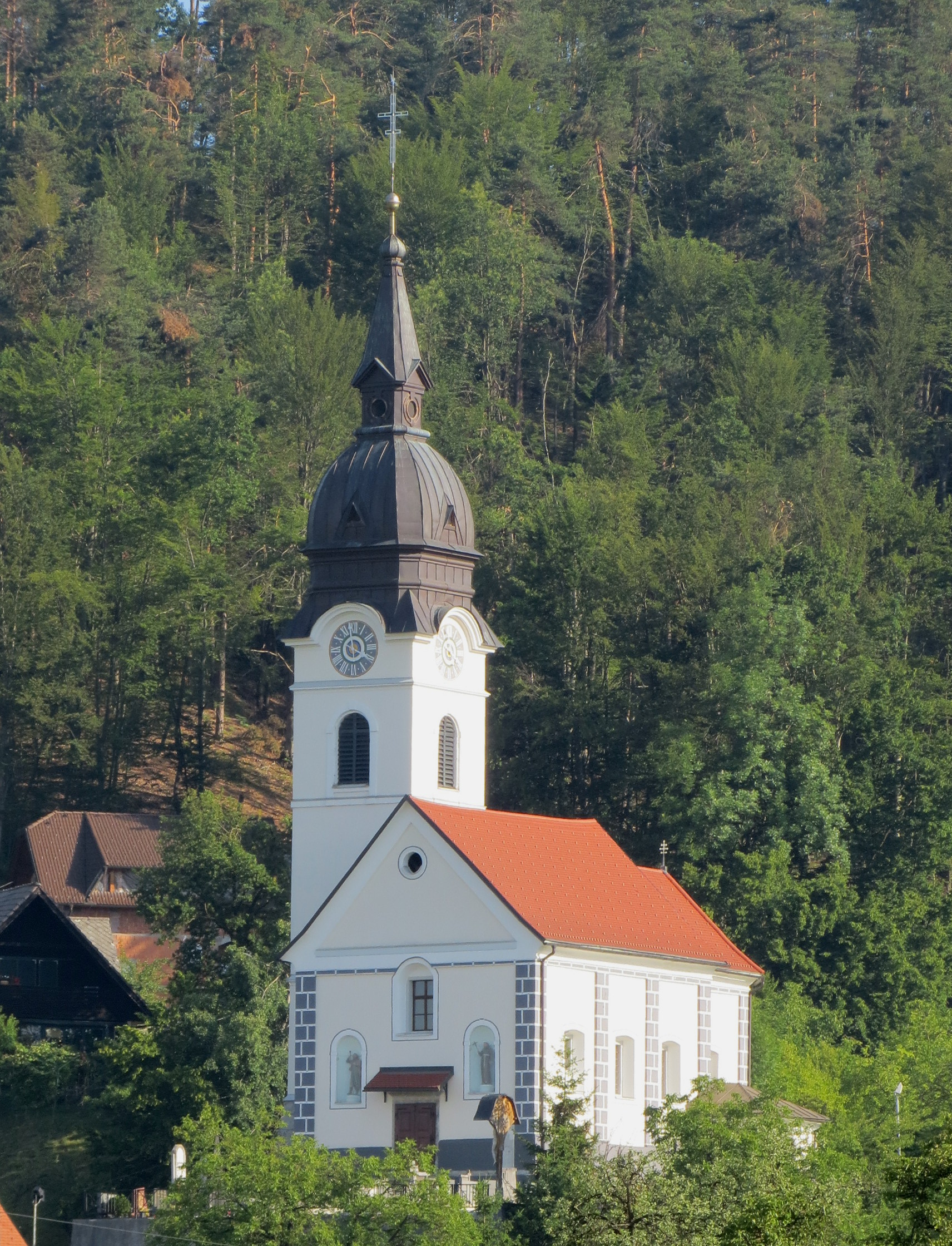 Saint Nicholas' Church in Podgorje, Municipality of Kamnik, Slovenia